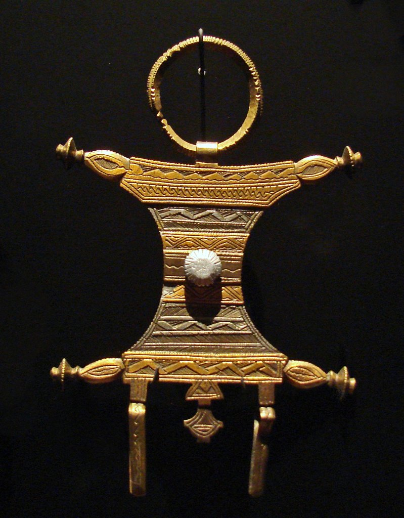 Tuareg jewellery